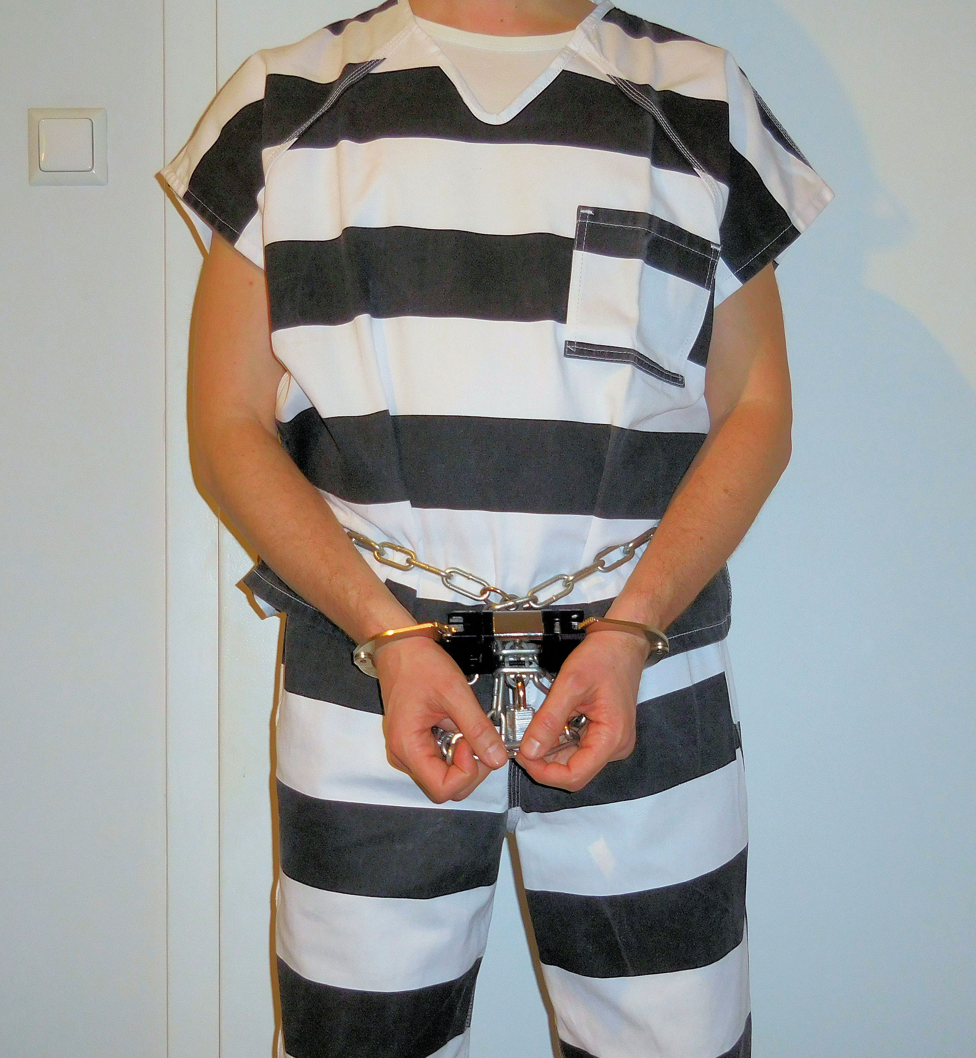 Inmate in striped uniform and restraints (handcuffs, black box, belly chain)